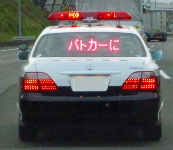 Electronic display board of Japanese Police car